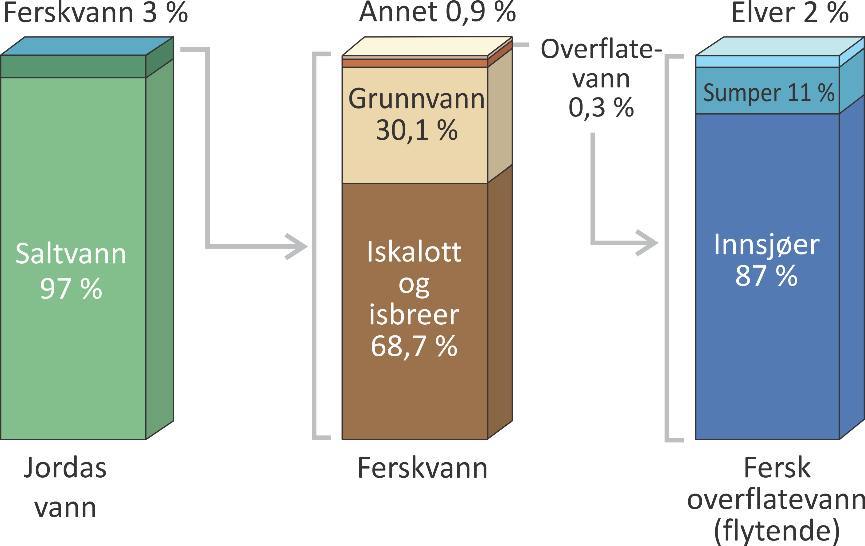 A graphical distribution of the locations of water on Earth. Norwegian text: En grafisk representasjon av lokalisering av vannressurser på Jorden.